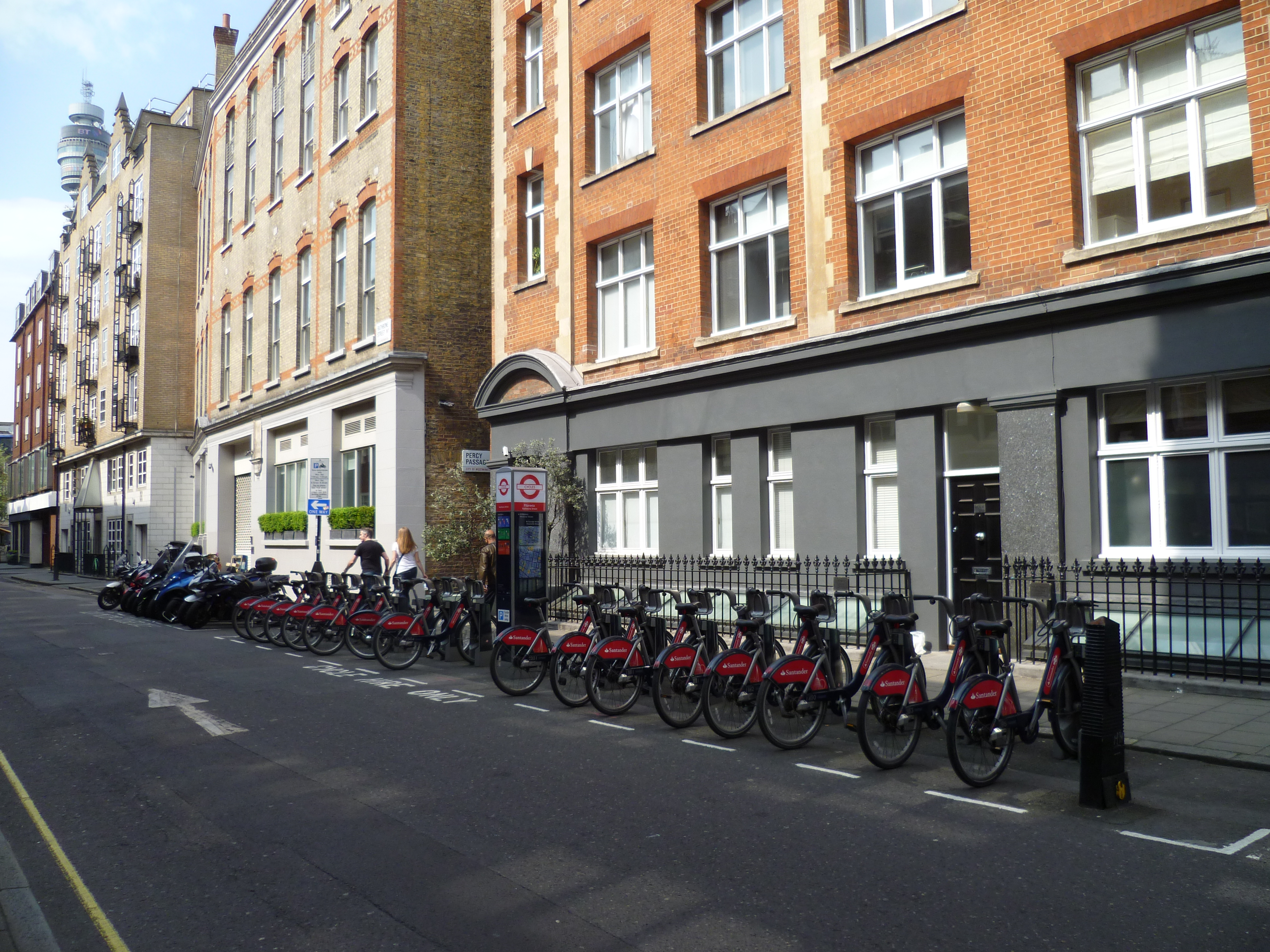 London